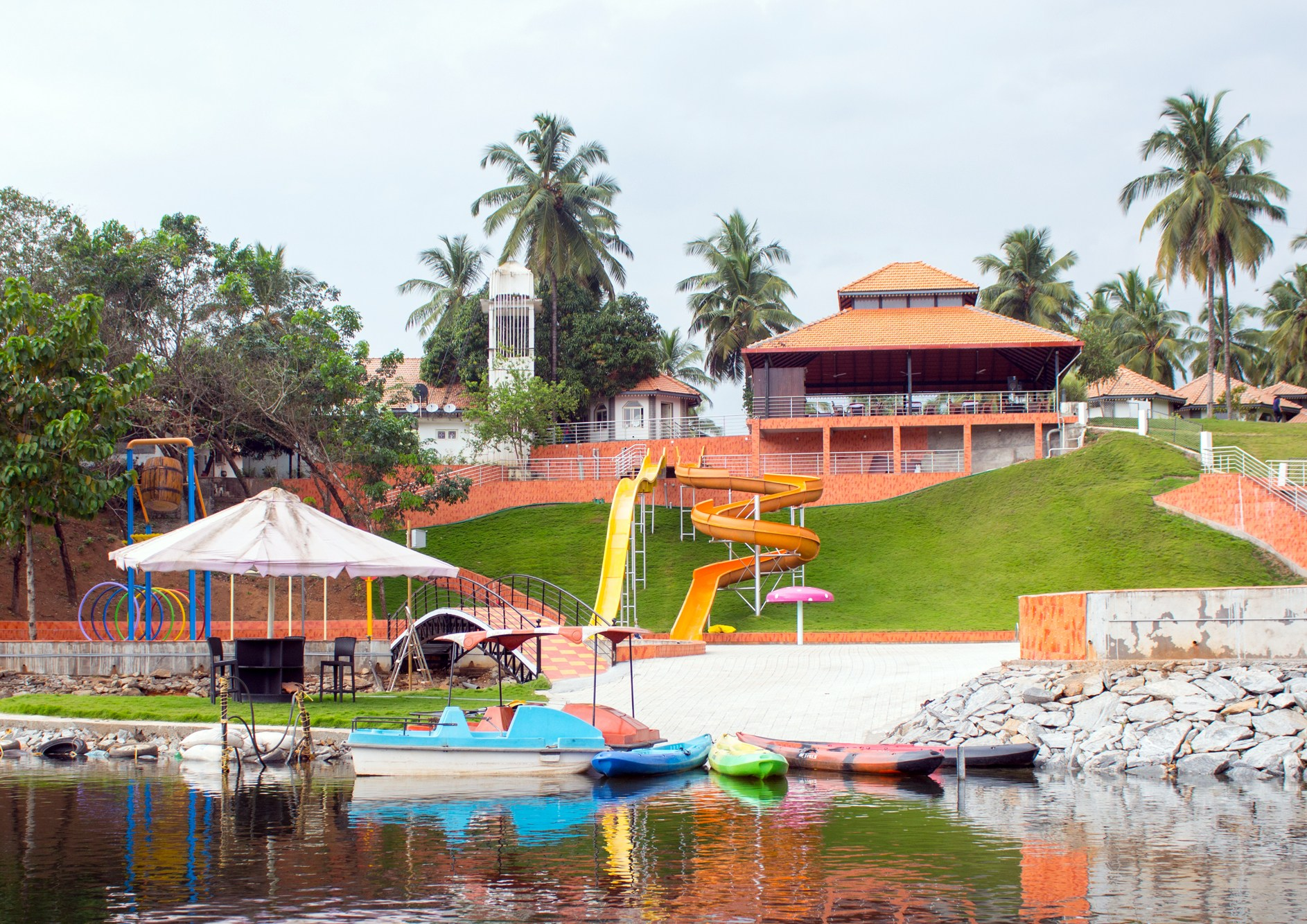 The abundance of fresh air, Pure water, Lush greenery and Vibrant flowers impart a sense of synergy between you and nature Water park and Resort